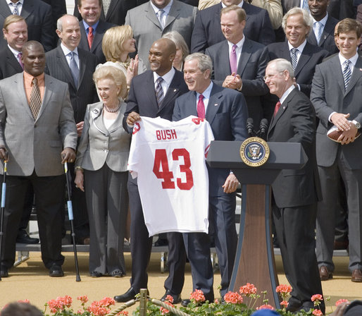 President George W. Bush holds a New York Giants jersey, presented to him by Giants wide receiver Amani Toomer Wednesday, April 30, 2008, as part of an event honoring the Super Bowl XLII Champions on the South Lawn of the White House.